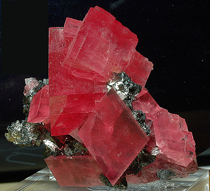 I took this photo of this specimen from my private collection. It is a miniature specimen of rhodochrosite (2.5 inches high) from the Sweet Home Mine, Alma, Colorado.